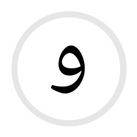 HS Letter (arabic alphabet)